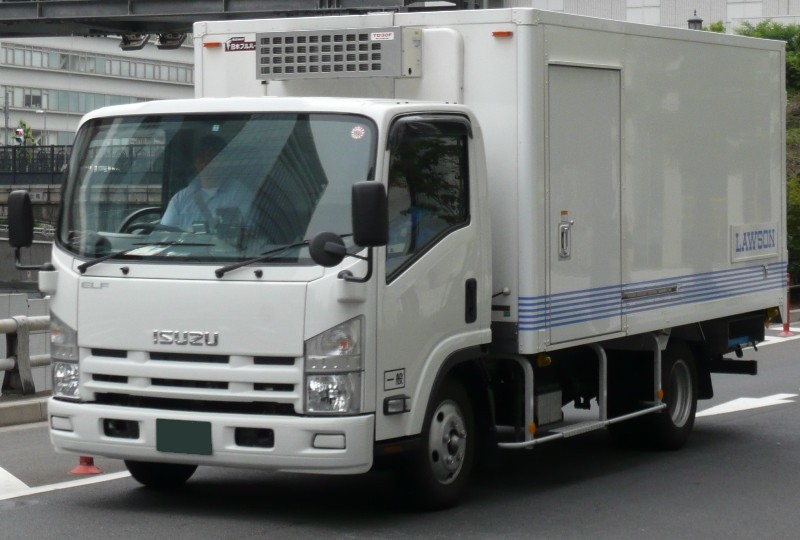 Isuzu Elf (6th generation) refrigerated box rigid truck of Lawson.